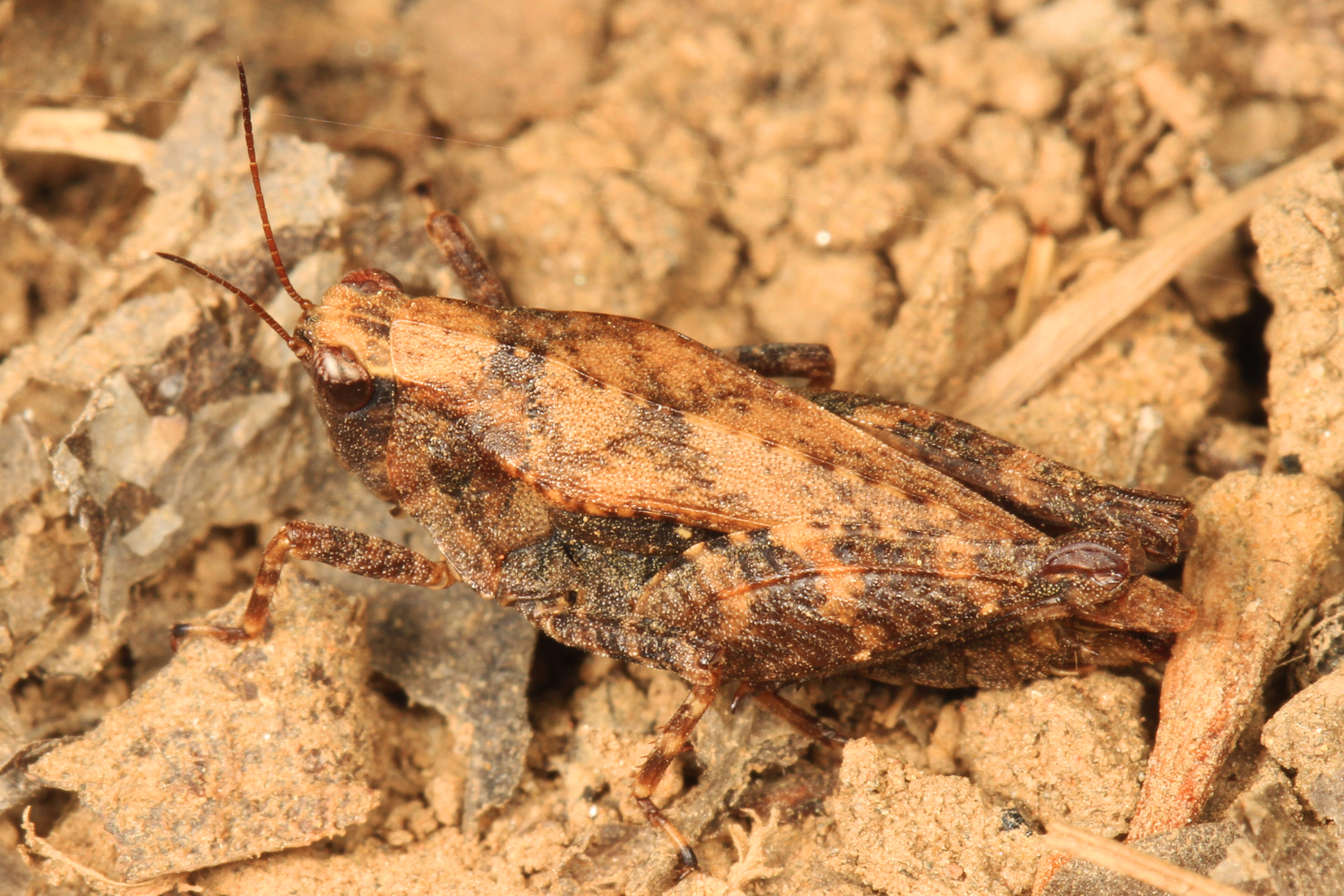 Black-sided Pygmy Grasshopper - Tettigidea lateralis, Riverbend Park, Great Falls, Virginia.